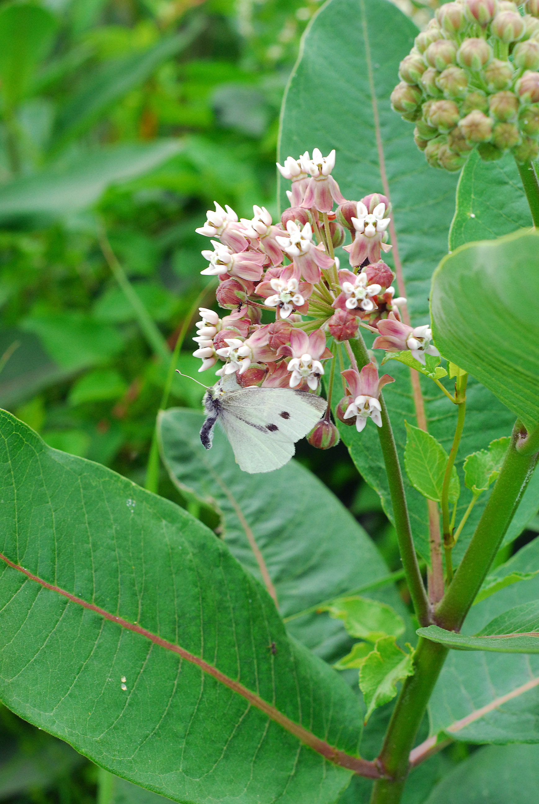 Dead Cabbage white (Pieris rapae) butterfly, caught by the sticky pollinarium of Common milkweed (Asclepias syriaca), a relatively common event. Sometimes bees get stuck too.